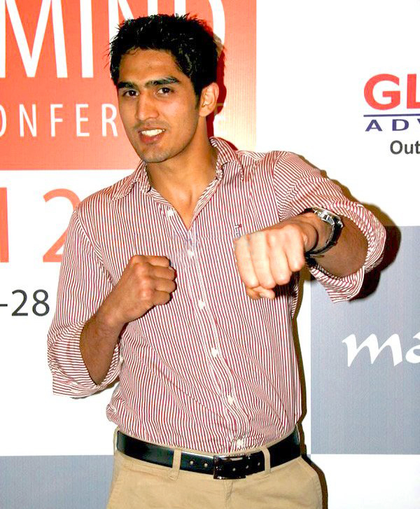 Vijender Singh at Milind Soman's gym opening